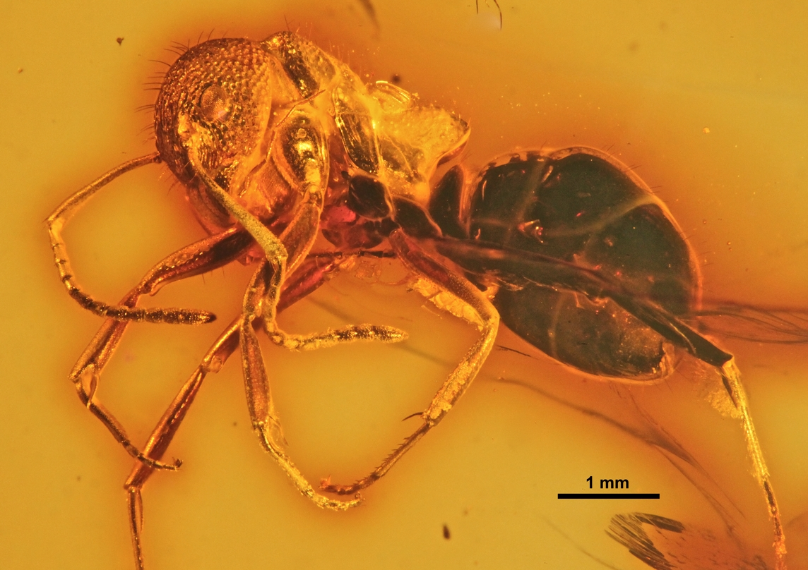 Profile view of a Dolichoderus sculpturatus worker. Middle Eocene; Baltic amber, Samland Peninsula, Kalingrad, Russia Museum fur Naturkunde Berlin, Germany. Specimen MBI2301